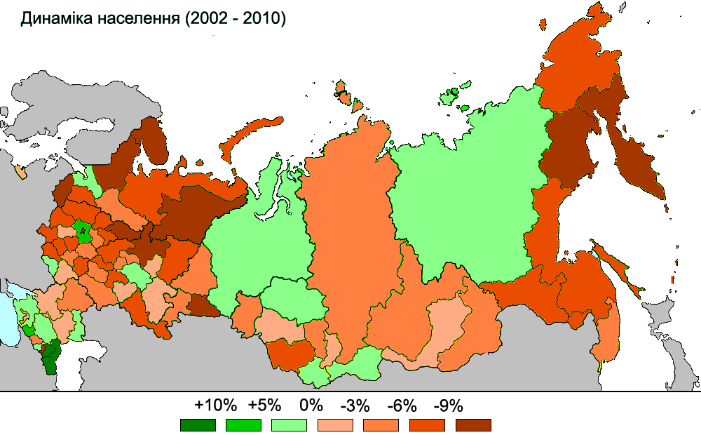 Population change in Russia between 2002 and 2010 censuses